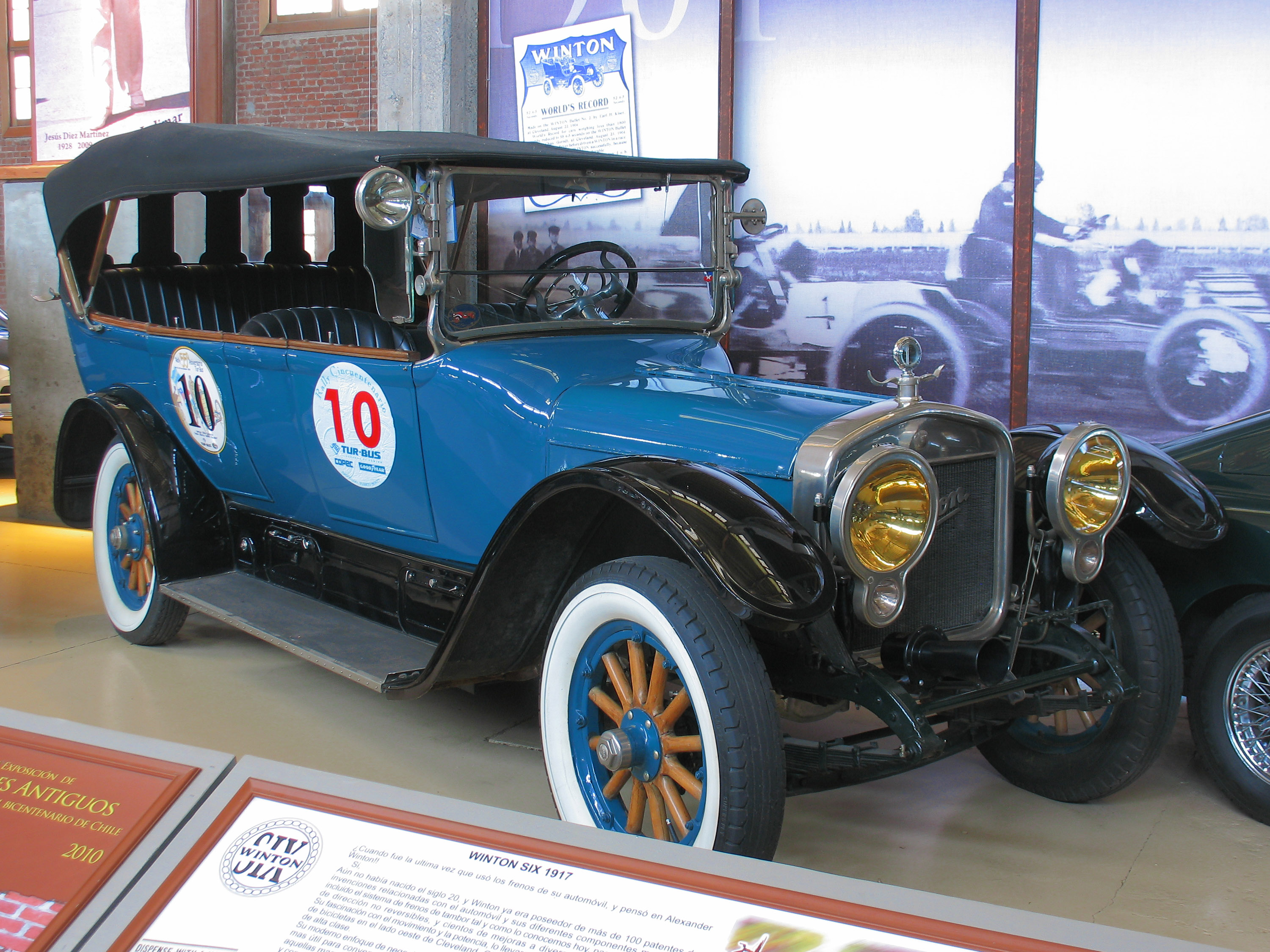 Winton Six Tourer 1917